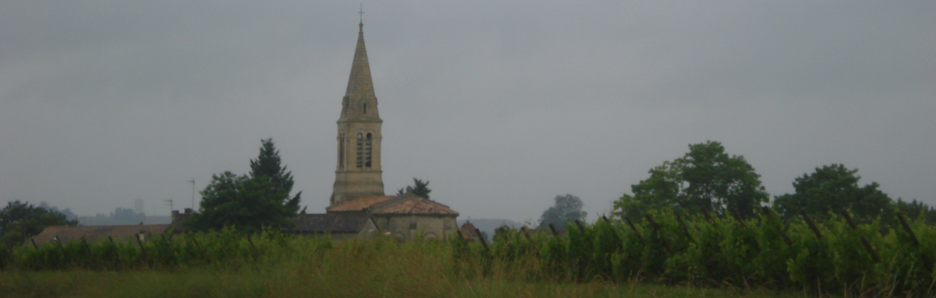 Panoramic view of Caplong (Gironde, Fr)